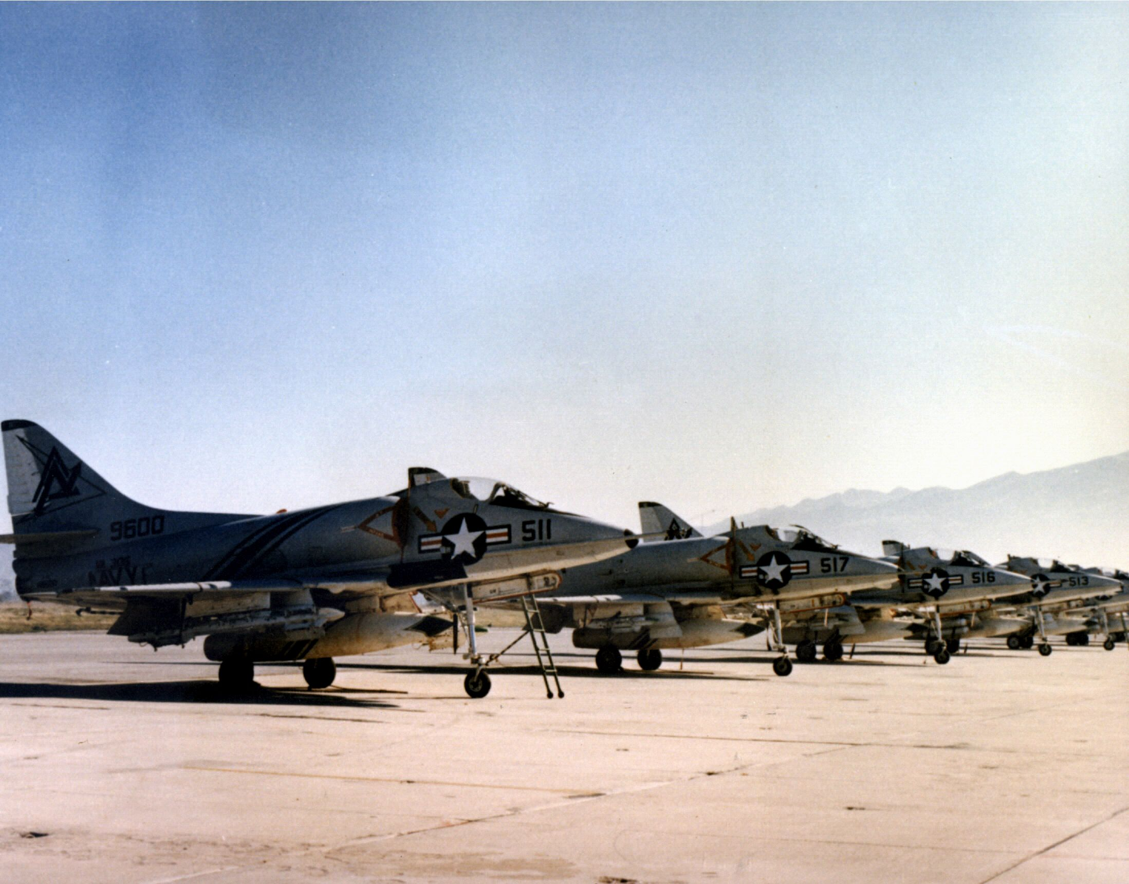 U.S. Navy Douglas A-4C Skyhawks of Attack Squadron 305 (VA-305) "Lobos" on the ground at the Pacific Missile Test Center, Point Mugu, California (USA). The A-4C BuNo 149600 in front was retired to the MASDC as 3A0316 on 29 March 1971.